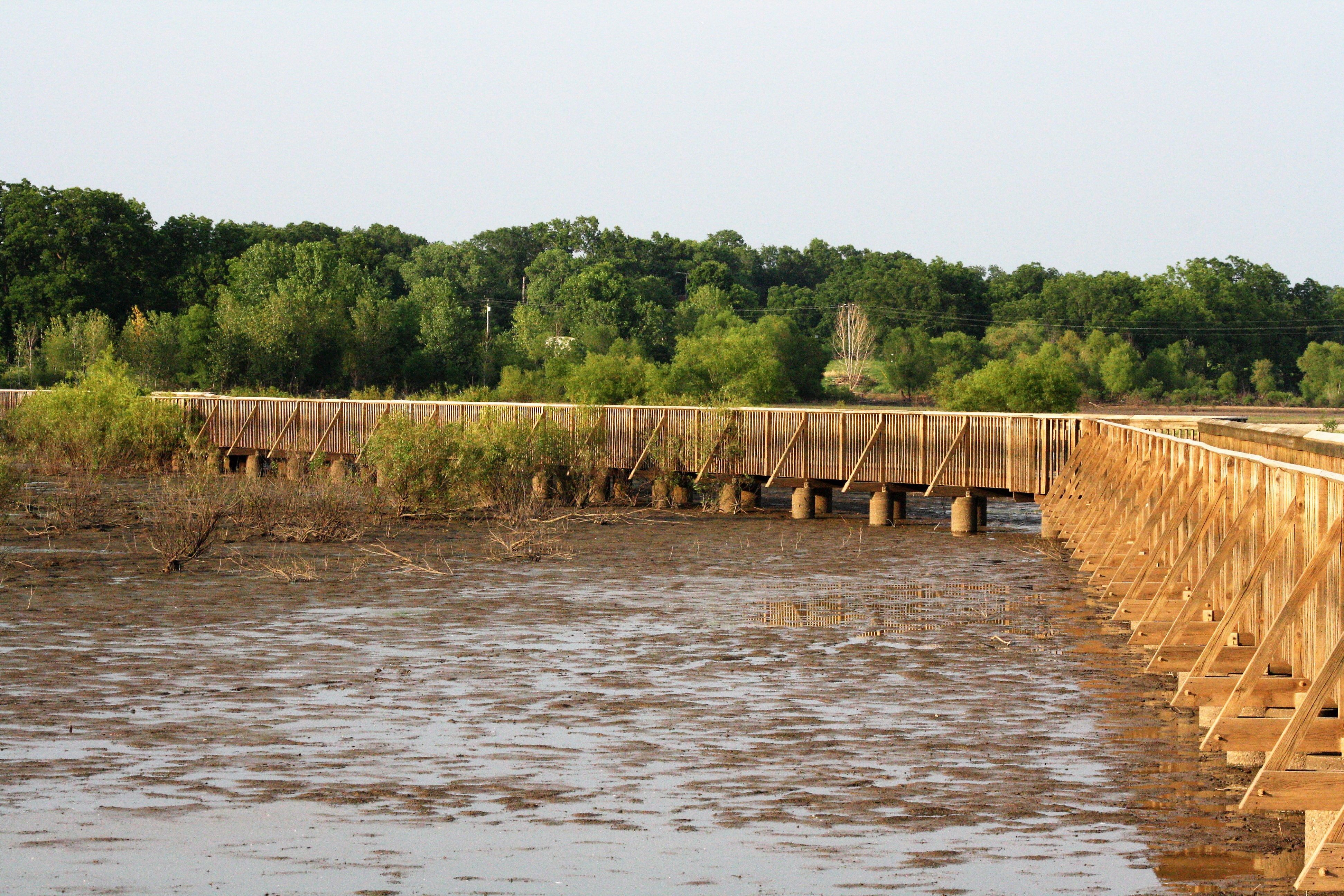 Boardwalk out over restored wetlands at the August A. Busch Jr. Memorial Wetlands at Four Rivers Conservation Area